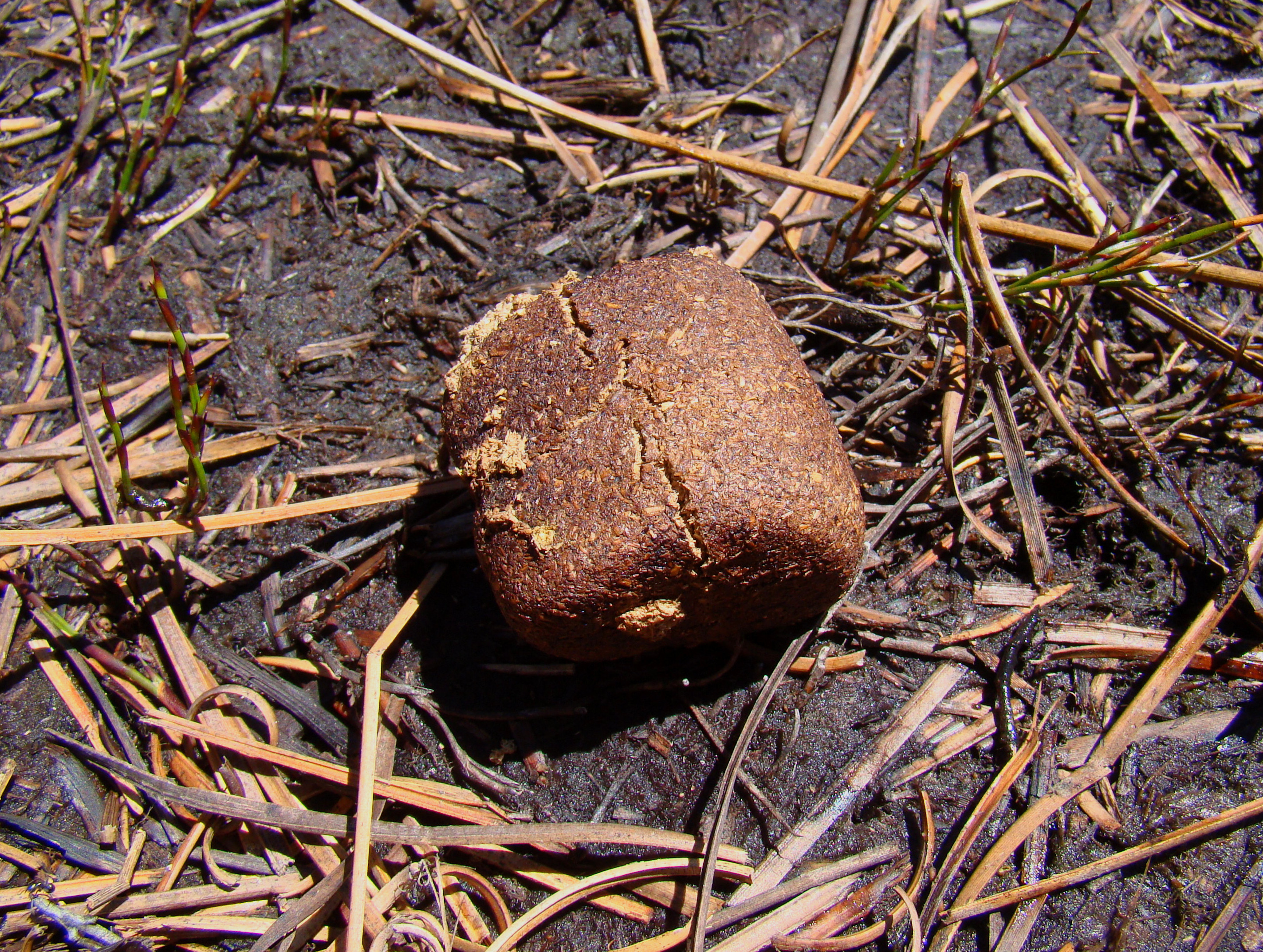 Faeces from a wombat, a very distinct brick-like shape. The wombat use this to mark its territory.